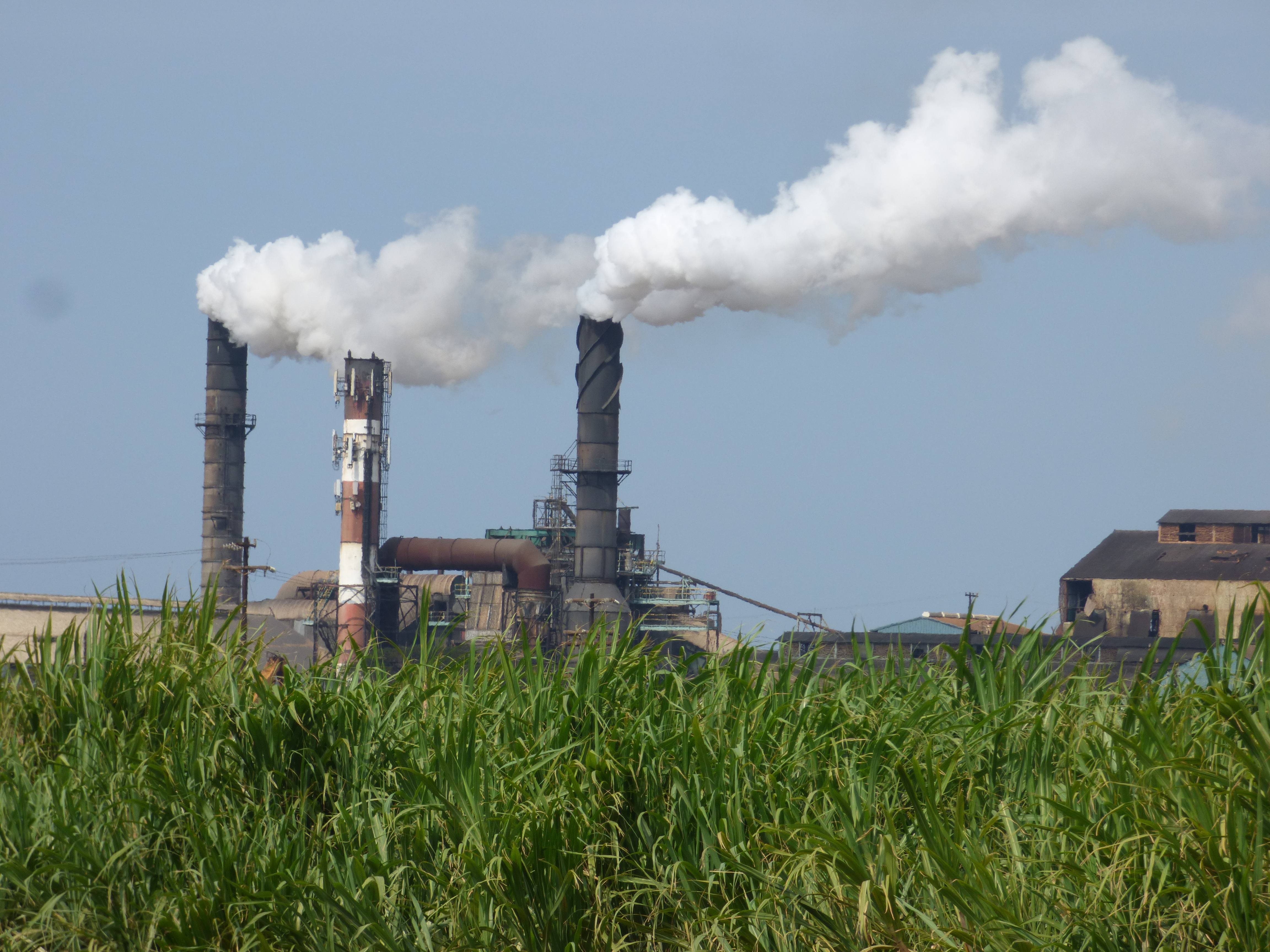 Saccharum officinarum (Ko, sugarcane) Sugar mill smoke stacks last harvest season at Puunene, Maui, Hawaii. March 24, 2016 #160324-0639 Image Use Policy